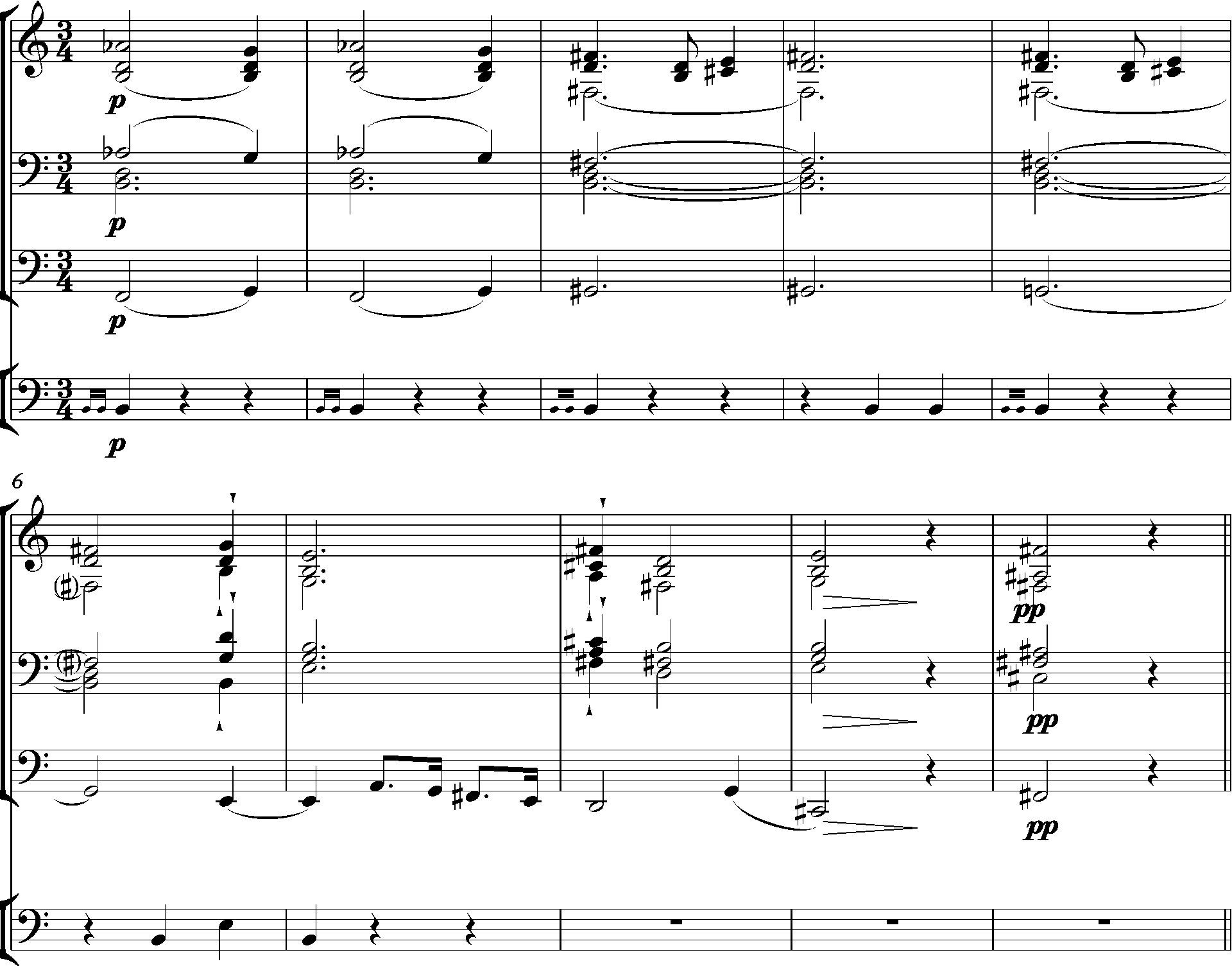 Wagner, Gotterdamerung, transition between the end of the Prologue and Act 1 scene 1